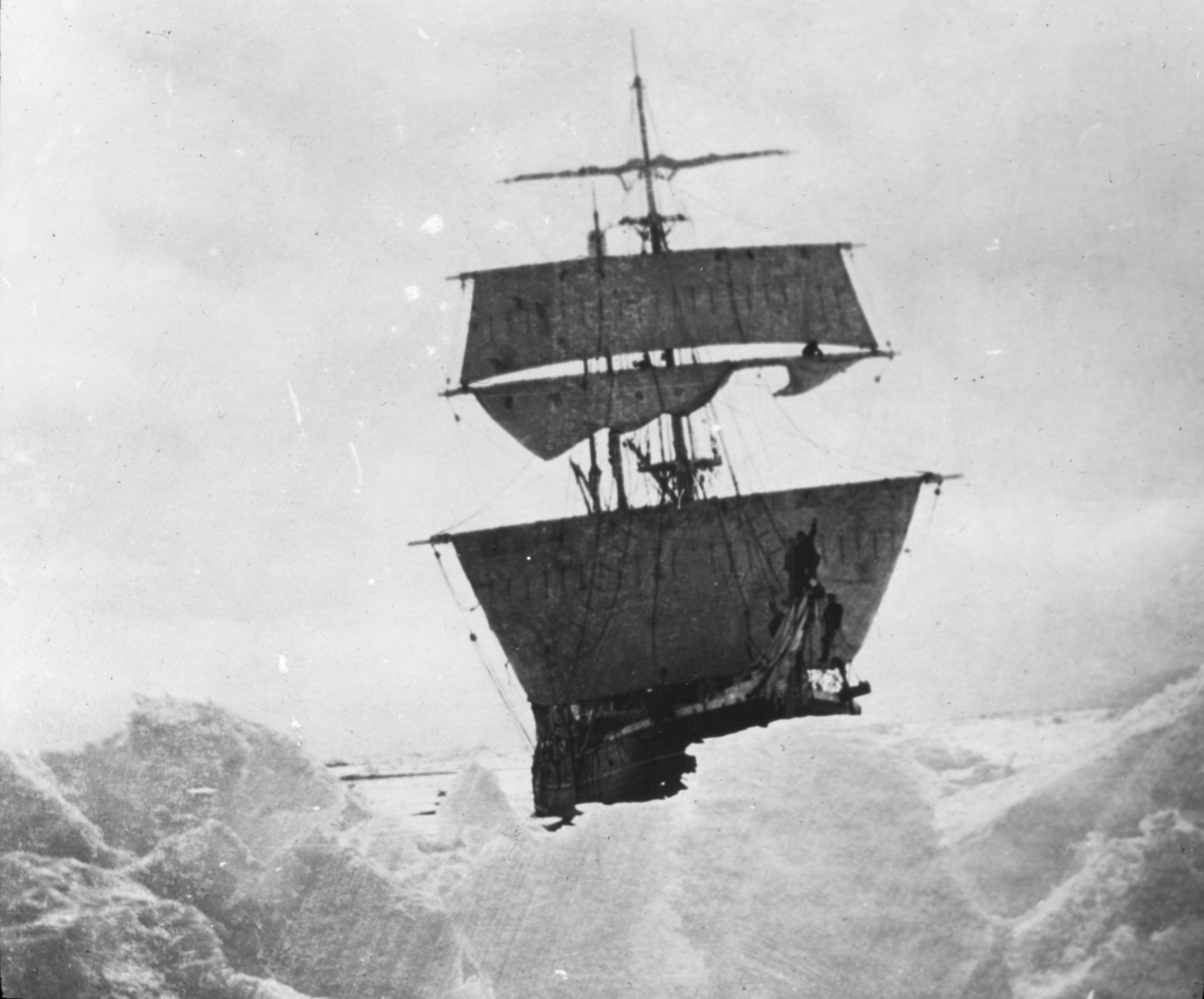 Photographs of the Nimrod Expedition (1907-09) to the Antarctic, led by Ernest Shackleton